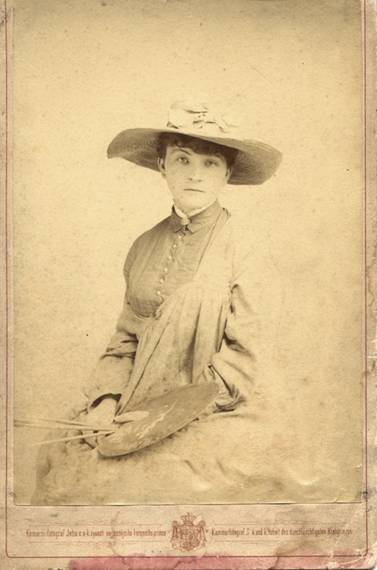 Czech painter Zdenka Braunerová, full original photograph with better contrast